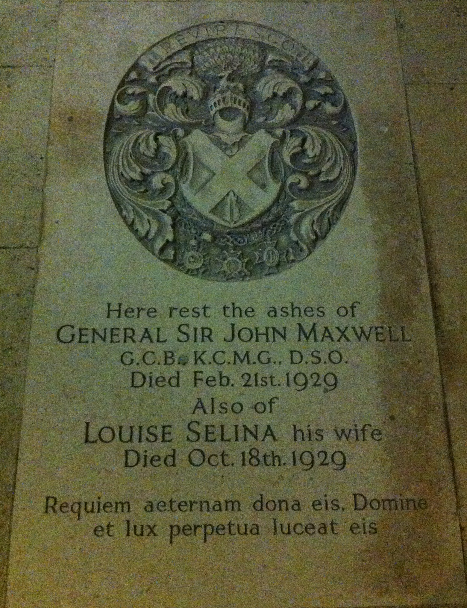 Memorial to General Sir John Maxwell GCB, KCMB, DSO, Died 21 Feb 1929, and Louise Selina, his wife, died 18 October 1929.